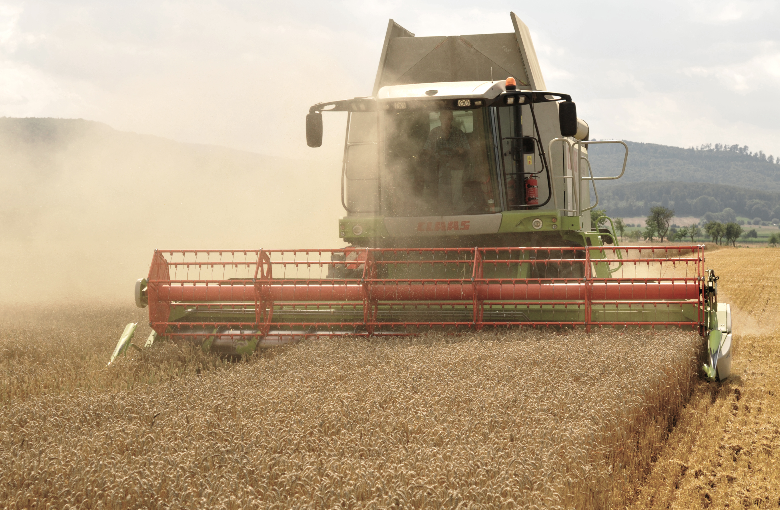 The combine Claas Lexion 584 06833 in the wheat harvest near Eldagsen in Germany. Claas Lexion 584 threshing the wheat. Then he crushes the chaff and blows it across the field.